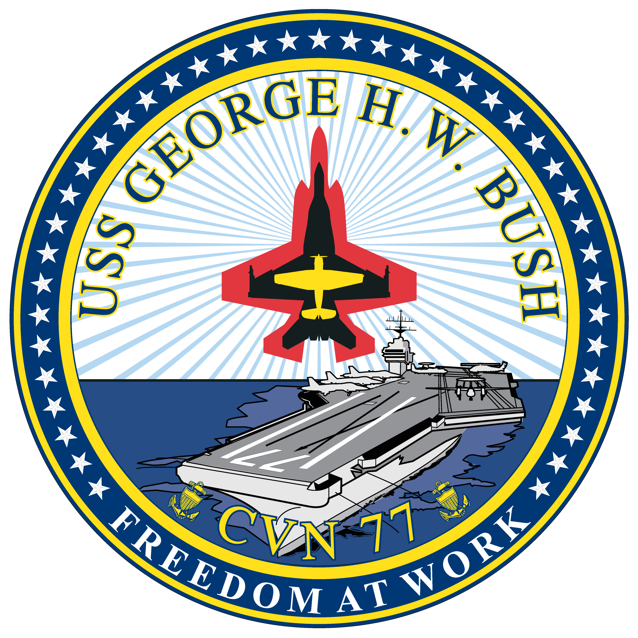 Insignia of the USS George H. W. Bush (CVN-77).